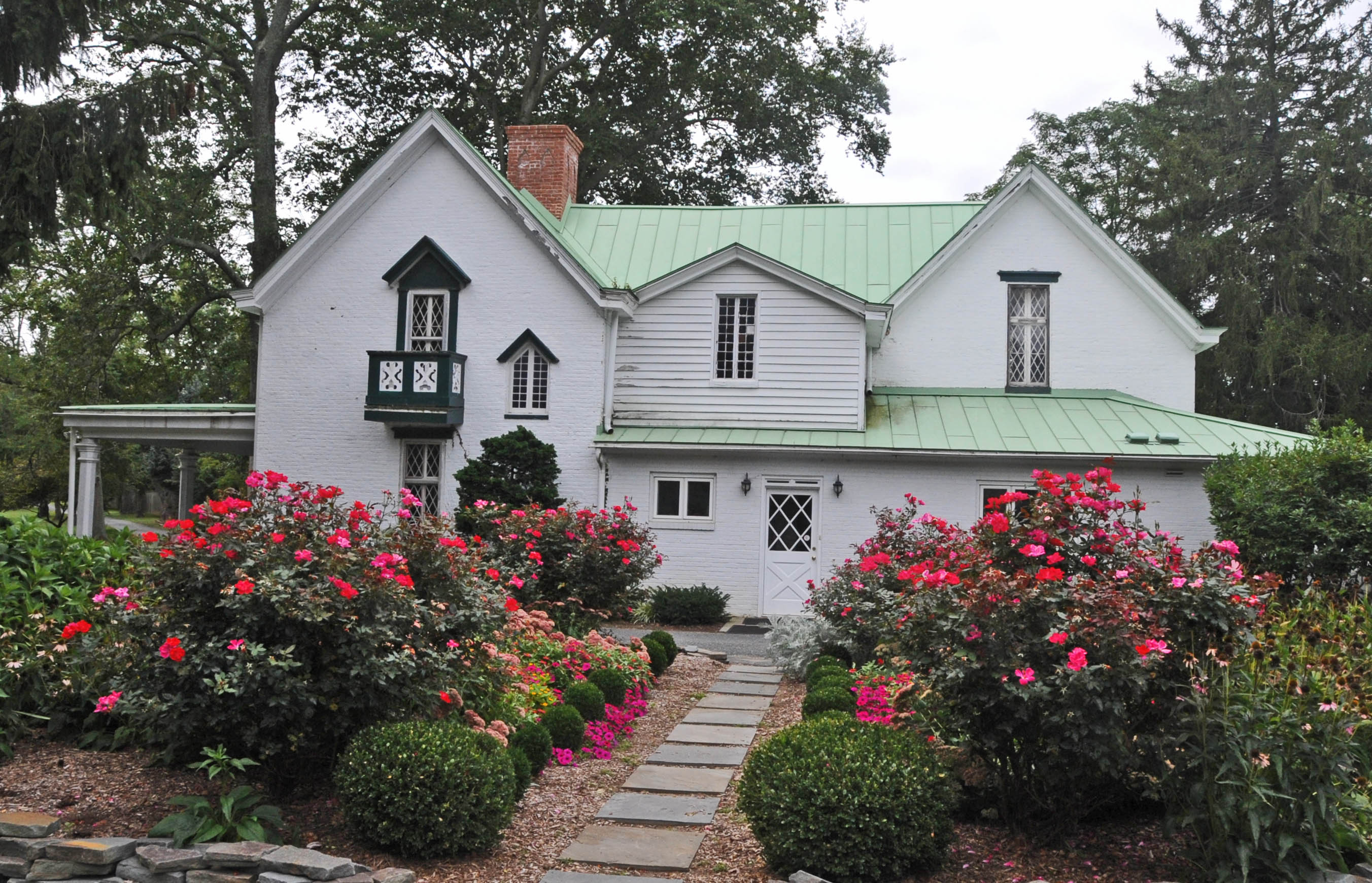 HOME OF JUNIUS BRUTUS BOOTH WHO NEVER LIVED HERE BECAUSE HE DIED BEFORE IT WAS COMPLETED;; HOWEVER HIS SON, JOHN WILKES BOOTH DID LIVE HERE WITH MOTHER AND SIBLINGS BUT NOT EDWIN BOOTH, HIS OLDER BROTHER